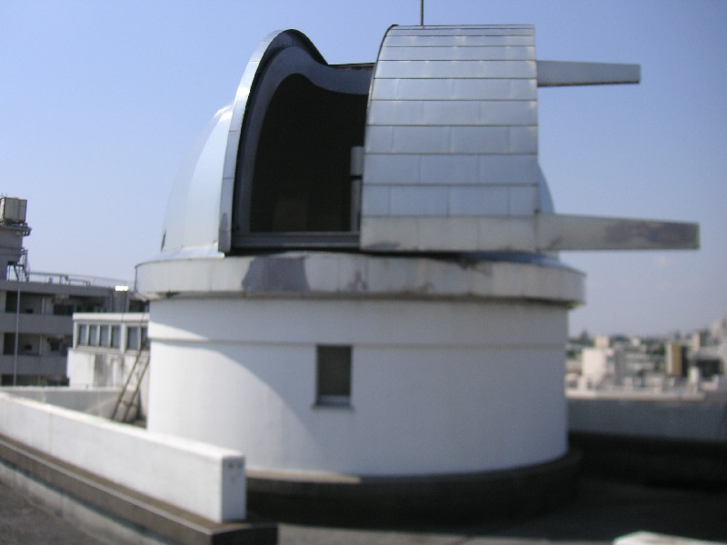 Observatory at the Fuji High School in Nakano Ward, Tokyo, Japan